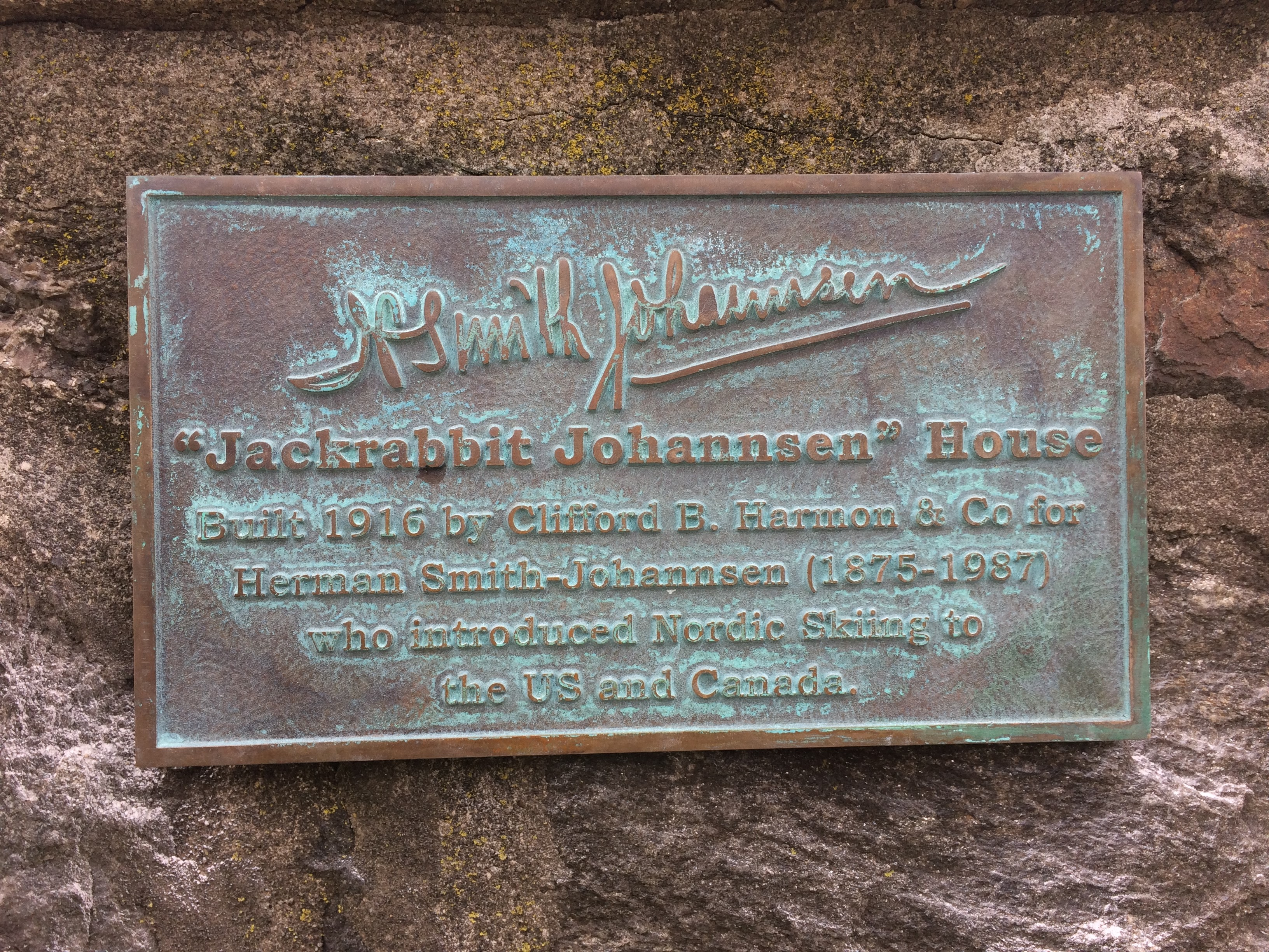 Historic marker on the house in Pelham, just outside New York City, the Johannsen's acquired ca. 1916. Herman Johannsen managed his heavy machinery trade business between Norway, North America and Cuba from New York before moving to Canada around 1929.